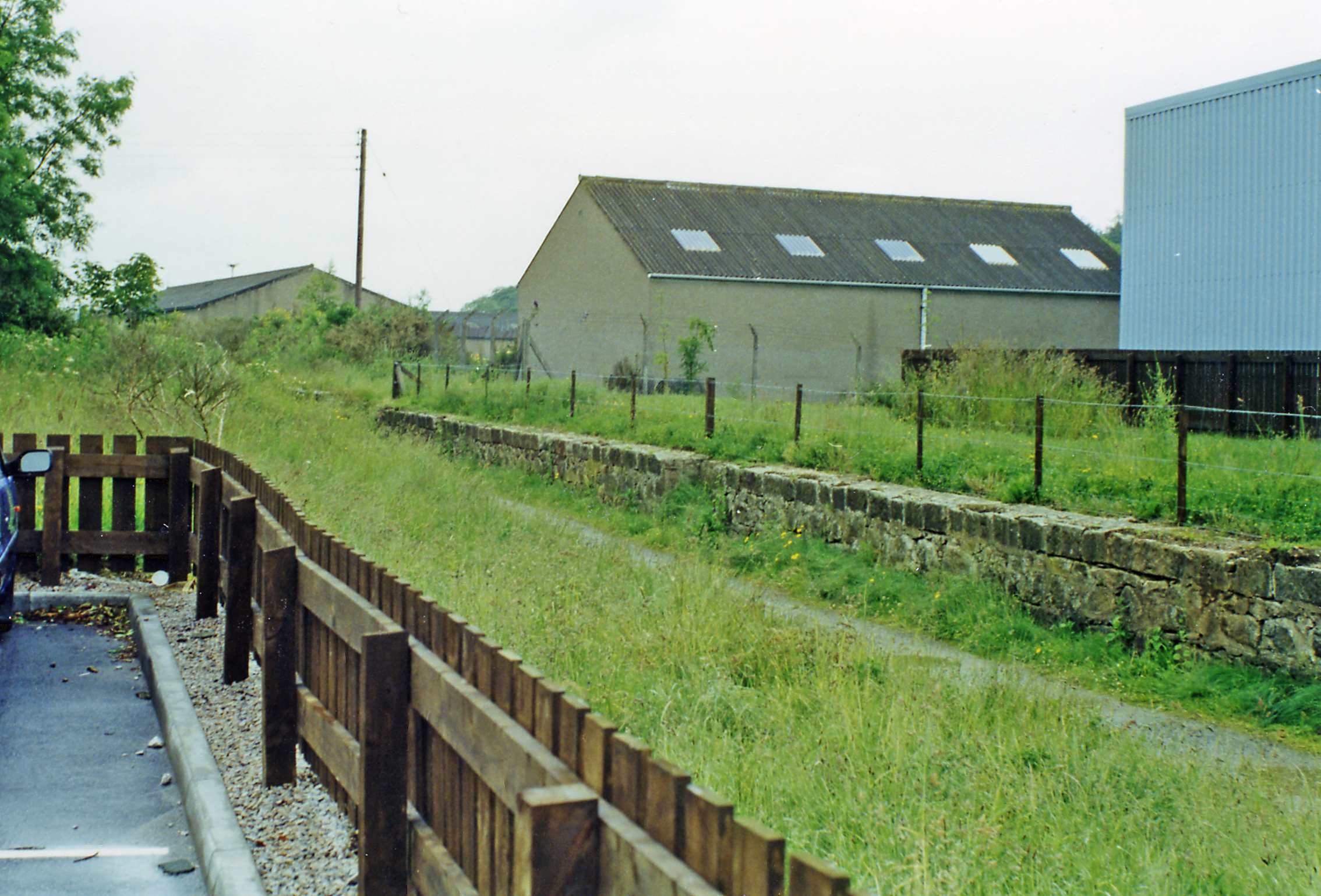 Ellon station (remains), 1997. View NE, towards Maud and Fraserburgh/Peterhead, also Boddam: ex-GNSR Aberdeen - Dyce - Fraserburgh/Peterhead line, junction of branch to Boddam. The station had closed to passengers 4/10/65 (goods 11/9/67), although freight to Fraserburgh continued until 6/10/79. The Boddam branch lost its passenger service 13/10/32 and closed completely 1/1/49.